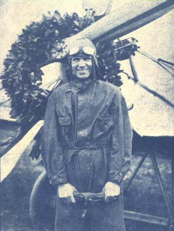 Czech aviator Alois Vicherek (1892-1956). The World's Record on a closed circuit established on the 6th and the 7th of June 1928 by the Mjr Vicherek, who covered 1550 miles in 19 hours and 53 minutes on a single-seater Avia BH-11 b fitted with a Walter 60 HP engine.